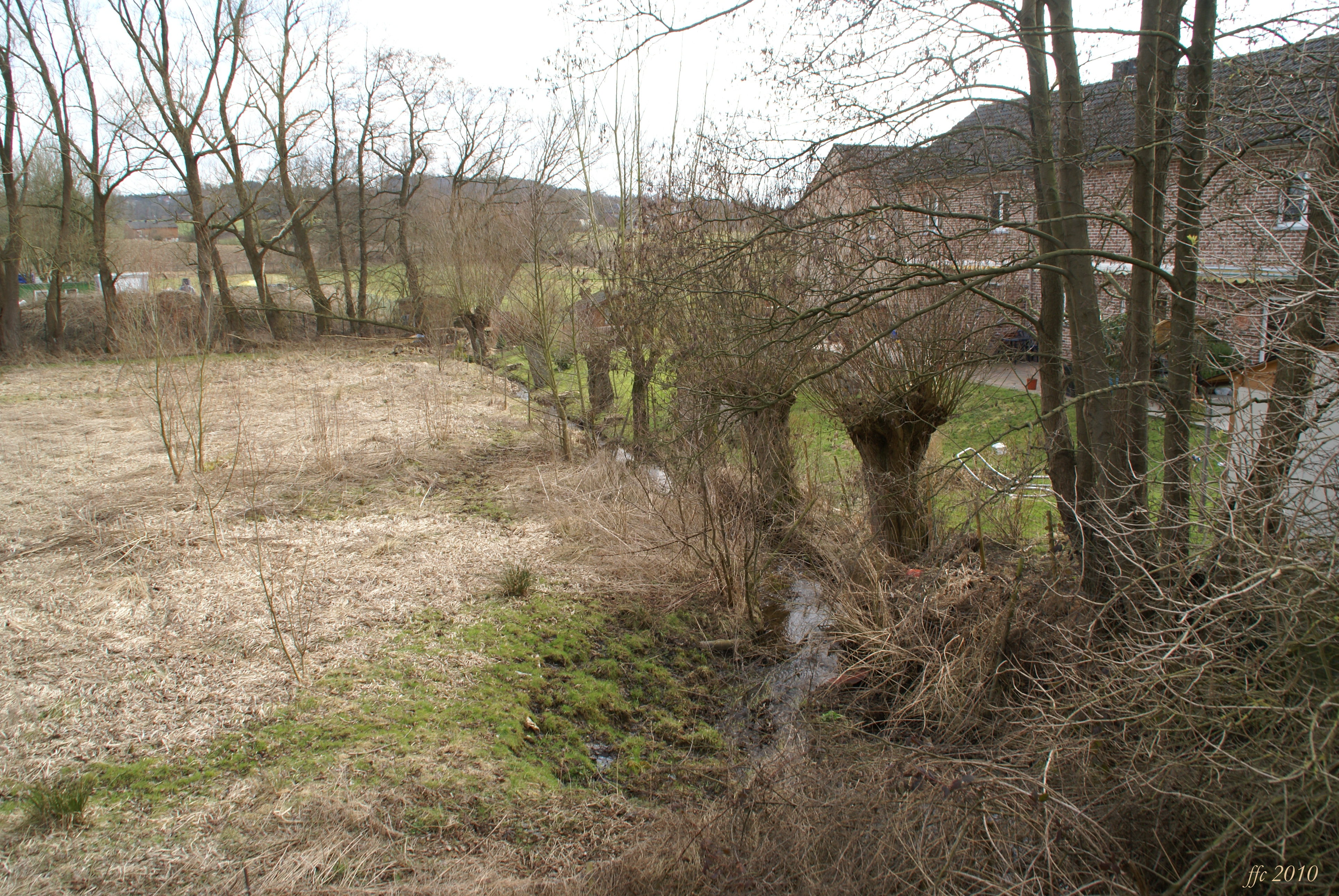 Neu Moresnet (Belgium): The river Tüljebach on the border between Germany and Belgium